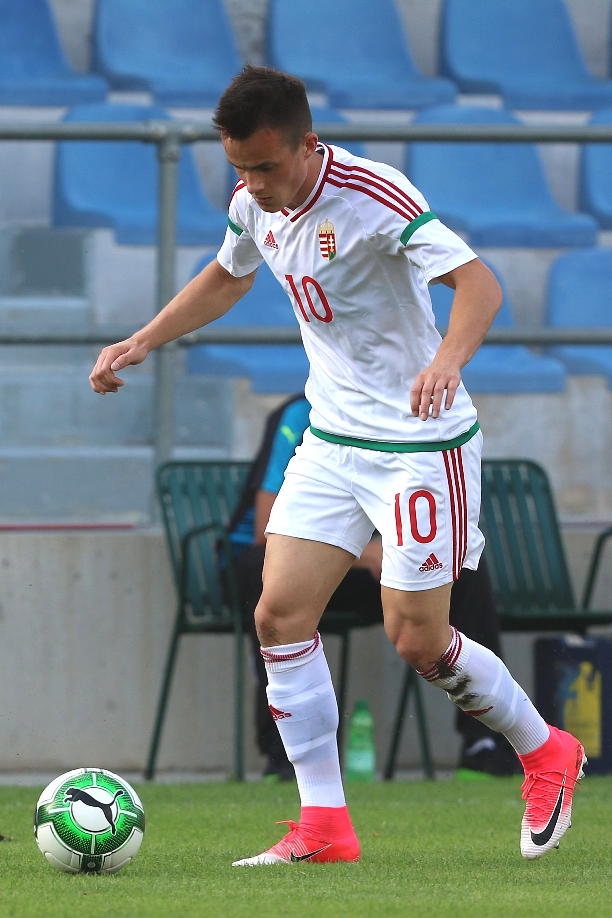 Friendly match: Austria U-21 (red shirts) vs. Hungary U-21 (white shirts) at 12. June 2017 in the Sonnenseestadion in Ritzing 2:1 (1:1) – The photo shows Benedek Murka (Vasas FC)